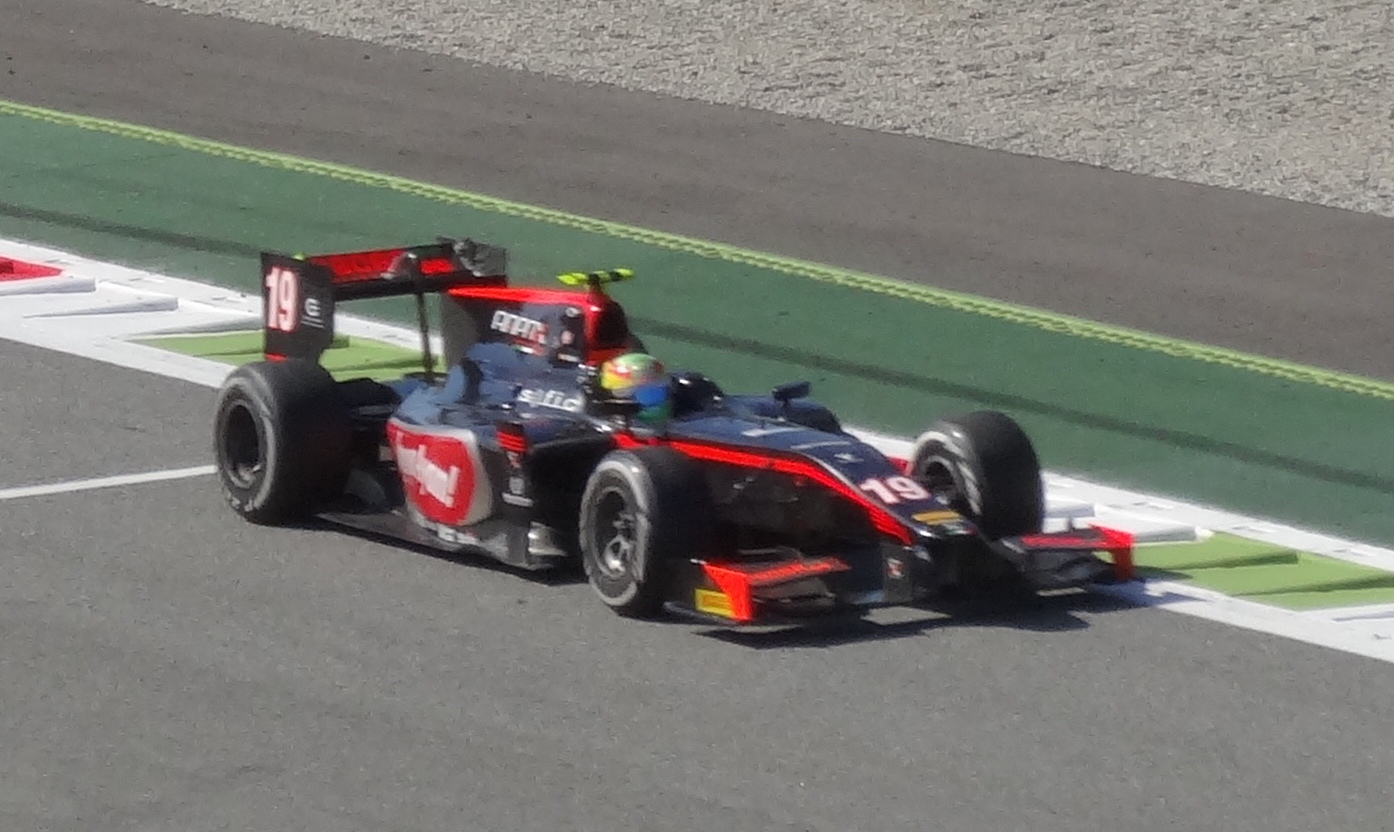 Roberto Merhi Monza F2 2017